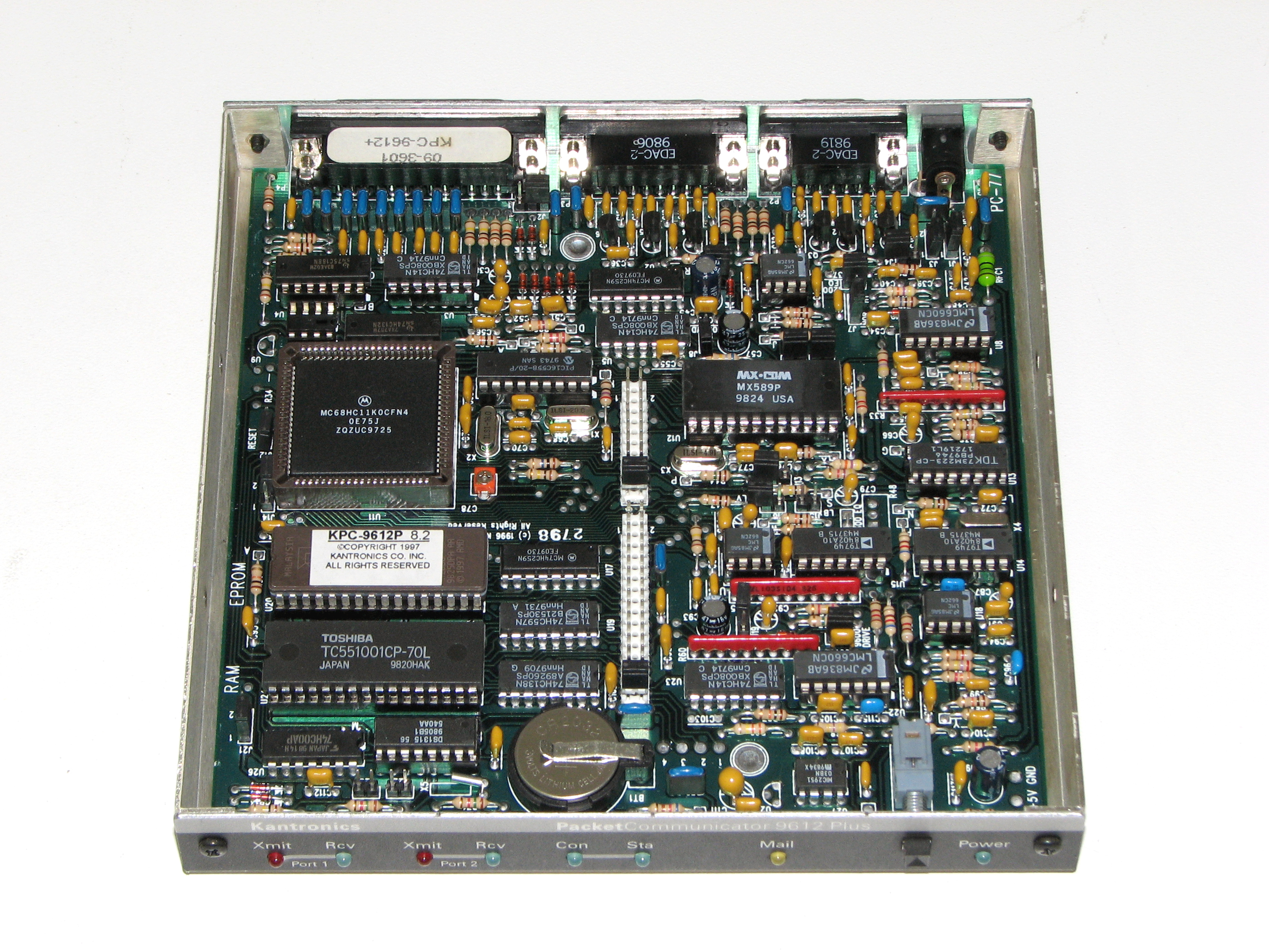 Kantronics 9612+ Terminal Node Controller exposed.